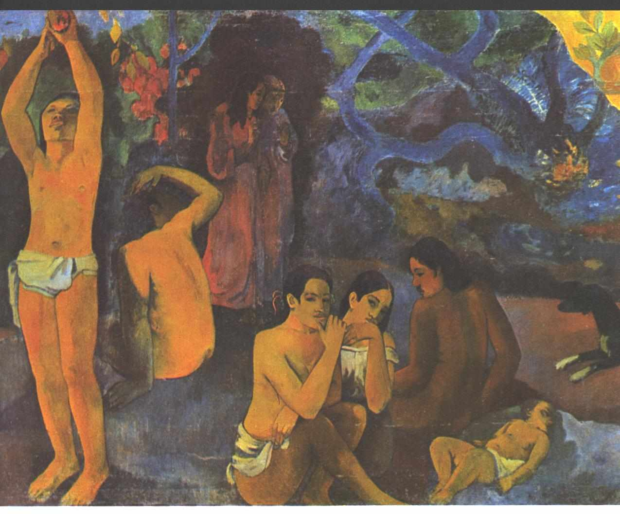 Tahitian people